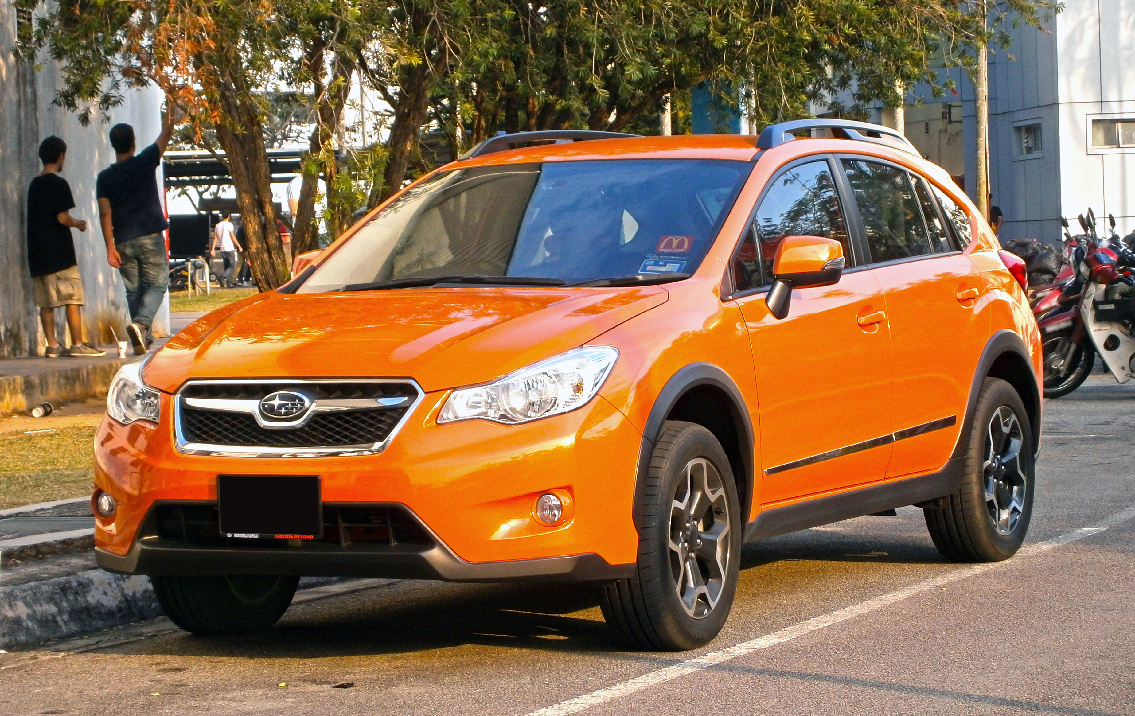 2013 Subaru XV 2.0i in Cyberjaya, Malaysia. Colour : Tangerine Orange Pearl